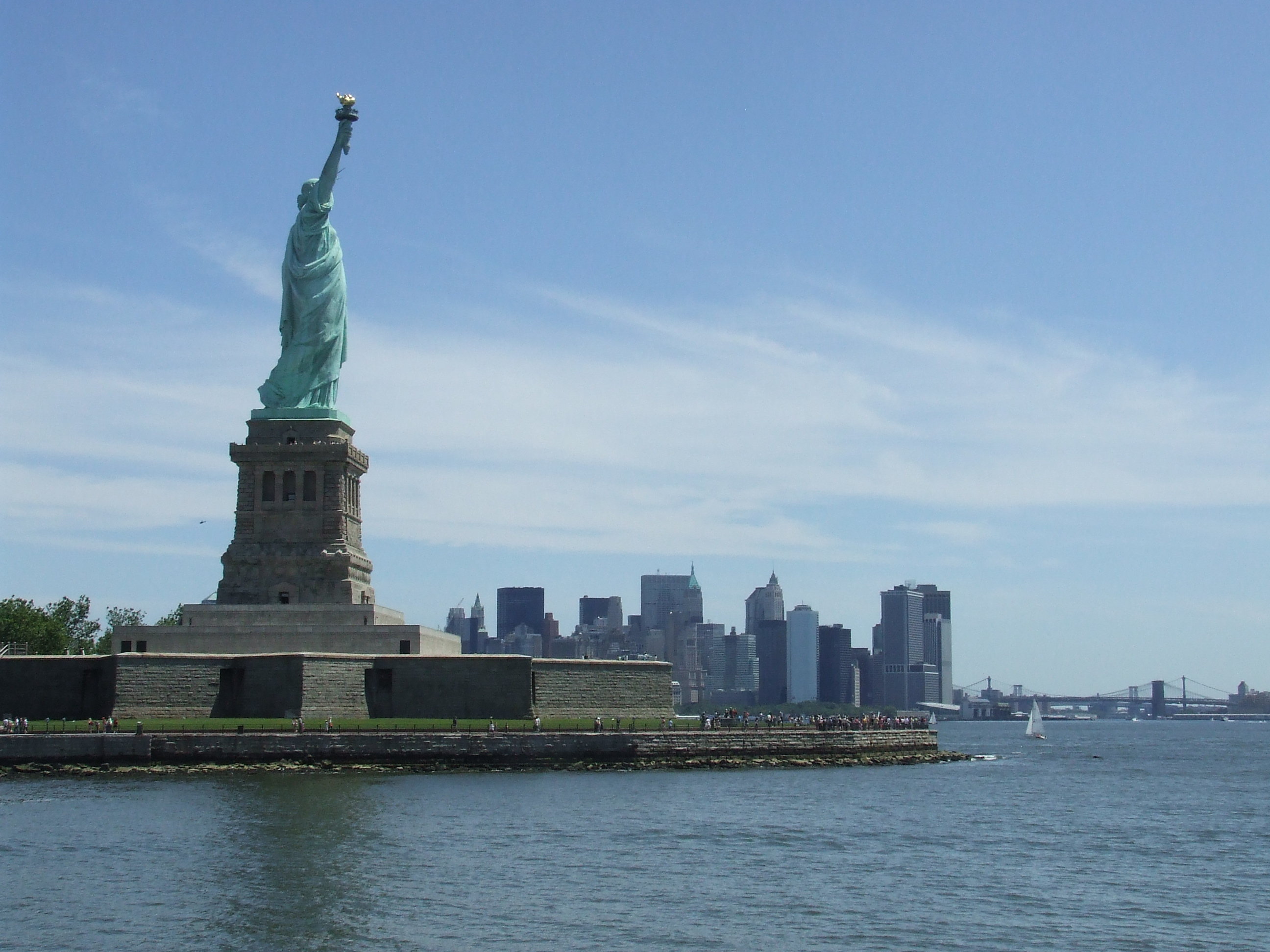 Statue of Liberty NYC